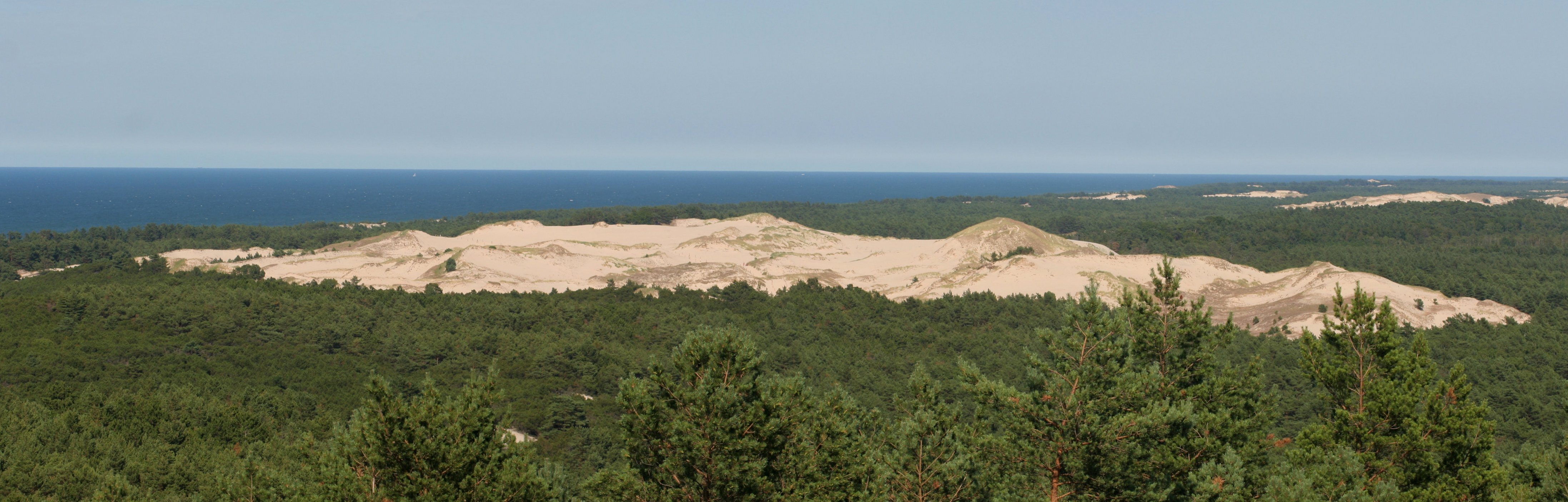 Panorama from Czołpino lighthouse.